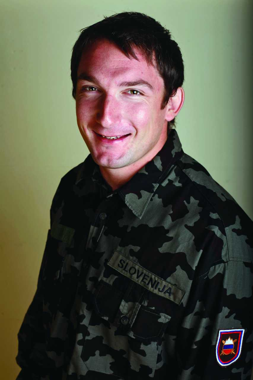 Primož Kozmus in military uniform in 2009